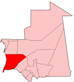 Map of Mauritania showing Trarza region.